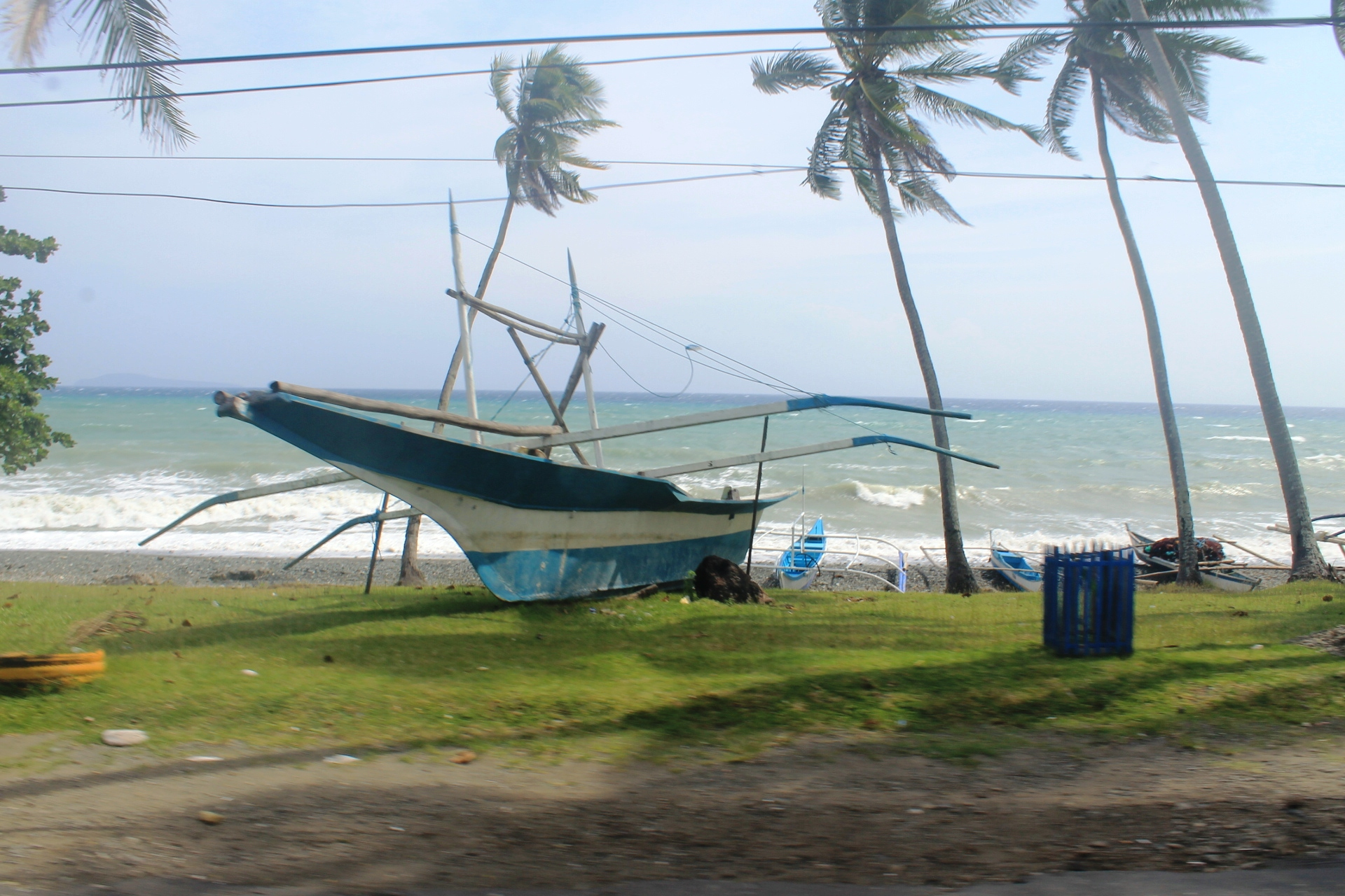 A boat in Brgy. Banot,Gasan, Marinduque uplift for avoid strong wind at the sea.